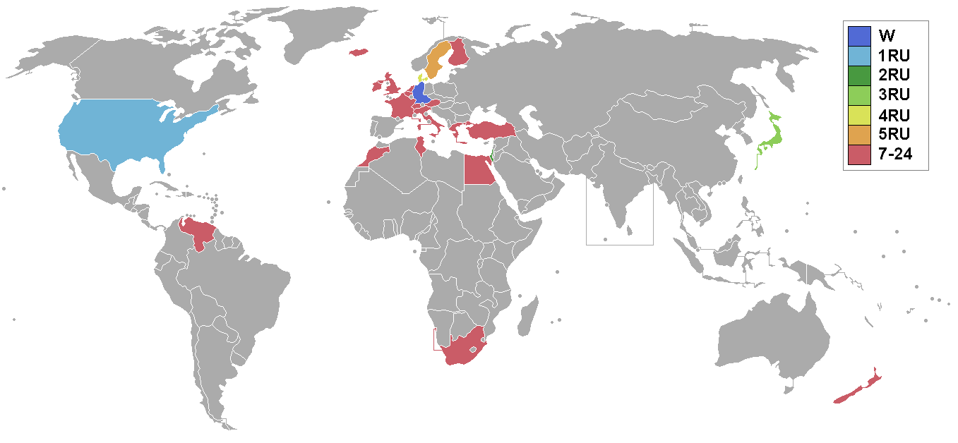 Countries and territories which sent delegates and results.